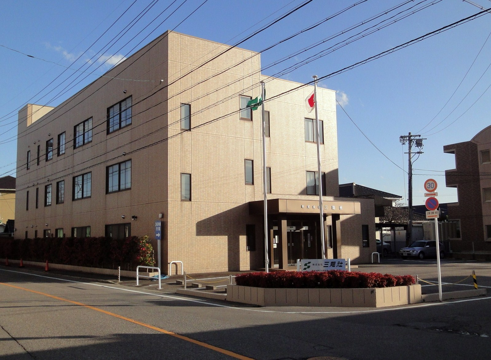 SANRYUSHA CO., LTD headquarters building in Okazaki City, Aichi Prefecture, Japan.